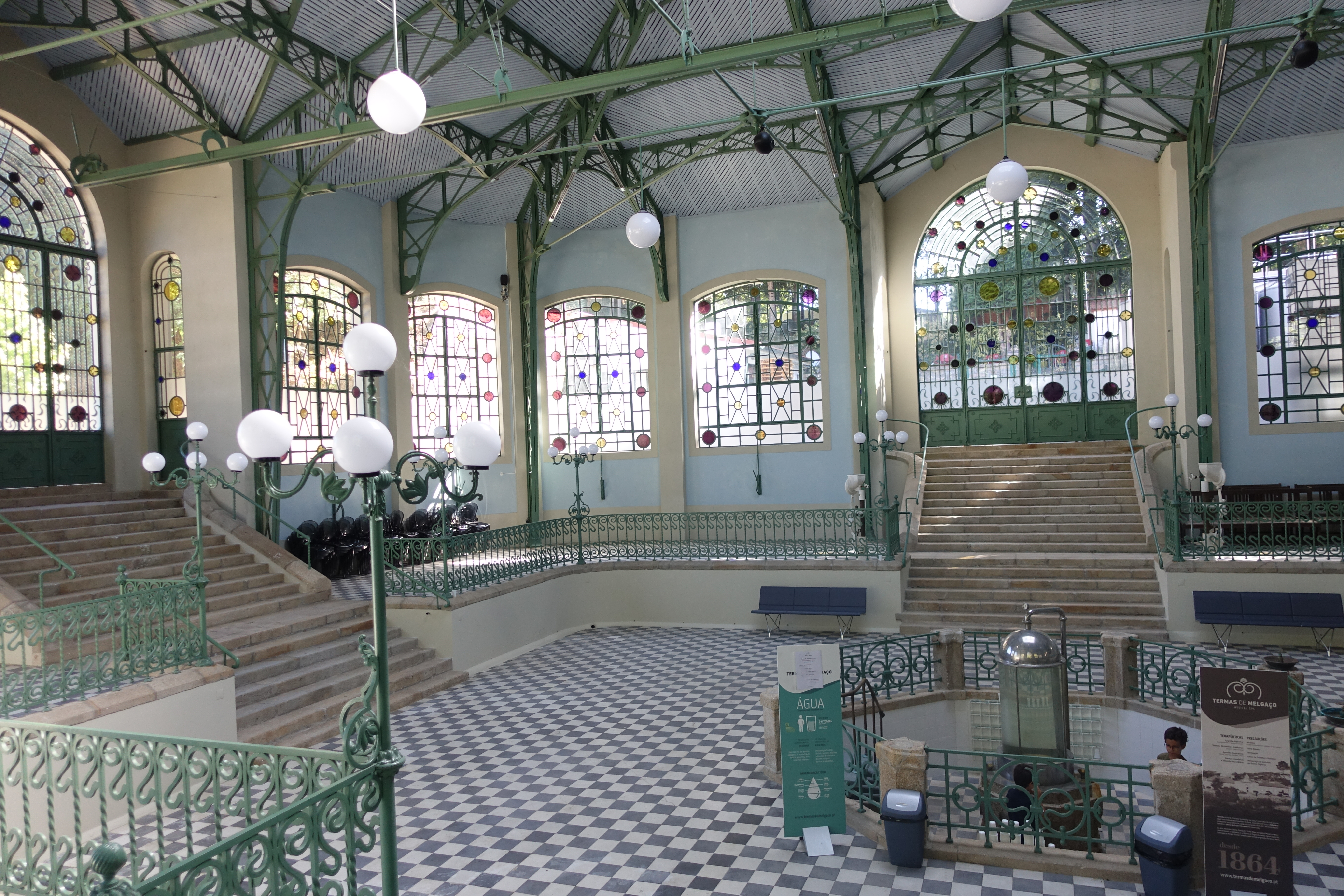 Fonte Principal das Termas de Melgaço, Portugal.